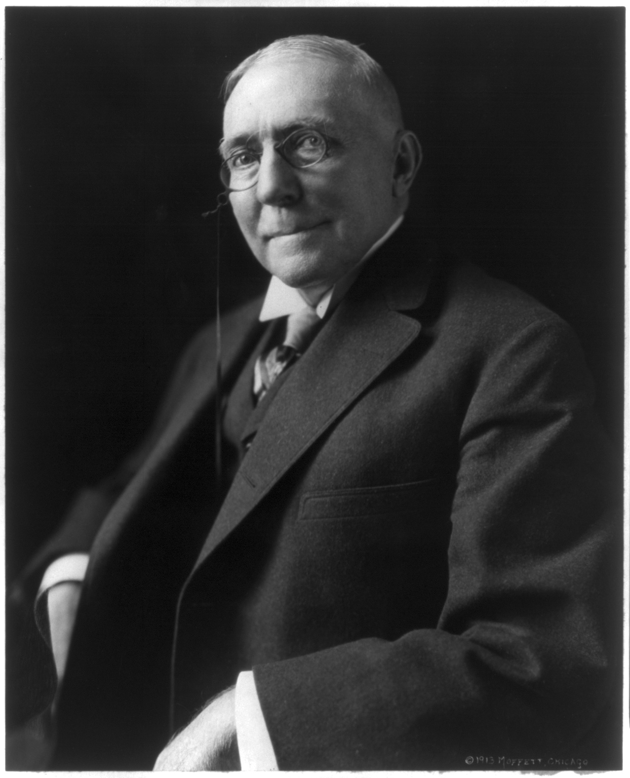 James Whitcomb Riley, 1849-1916, half-length portrait, facing left